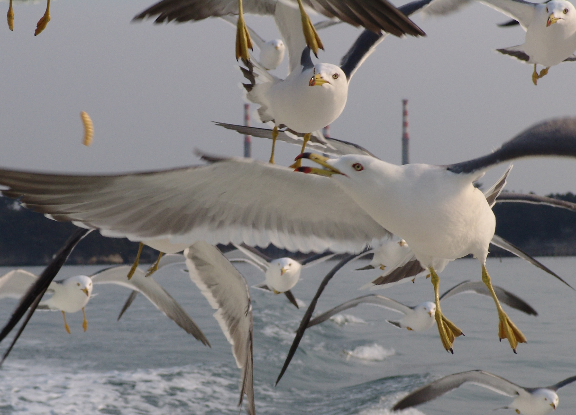 Larus crassirostris in the air